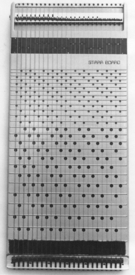 This is a 24 string StarrBoard built by John Starrett